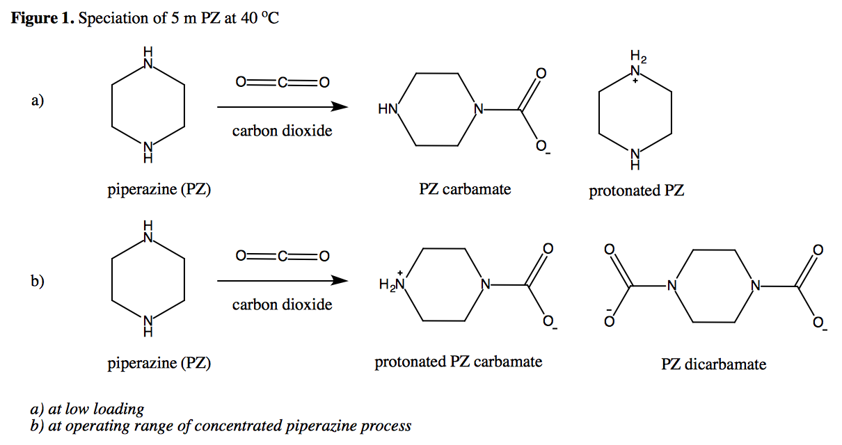 Piperazine (PZ) reacts with carbon dioxide to produce PZ carbamate and PZ bicarbamate at low loading and operating range, respectively.